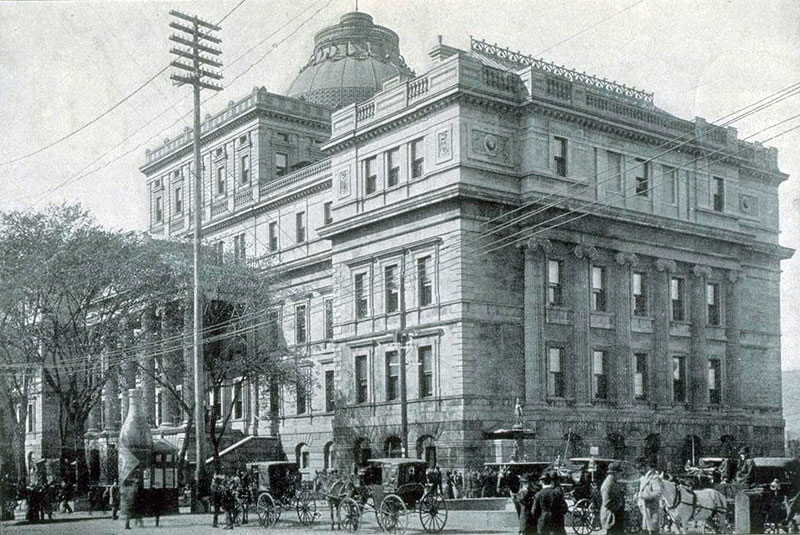 A photograph of Montreal courthouse in 1895.